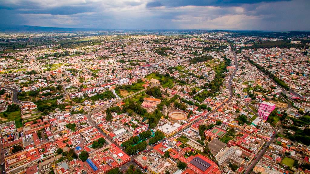 Tlaxcala